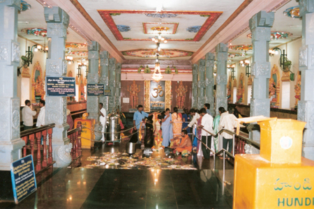 IT IS ONE OF THE FAMOUS TEMPLE IN OUR NELLORE DISTRICT. THIS TEMPLE GOD IS VERY POWERFULL AND VERY KIND NEAR TO BY PASS ROAD NH -5 SULLURPET